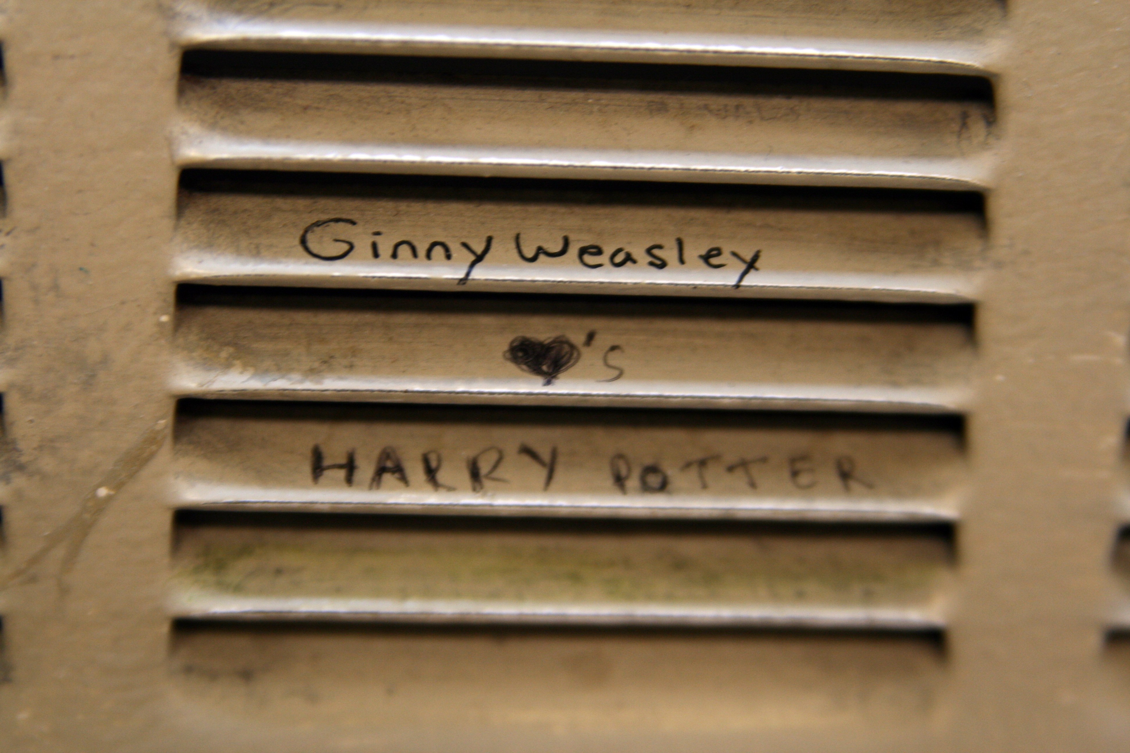 Ginny Weasley loves Harry Potter